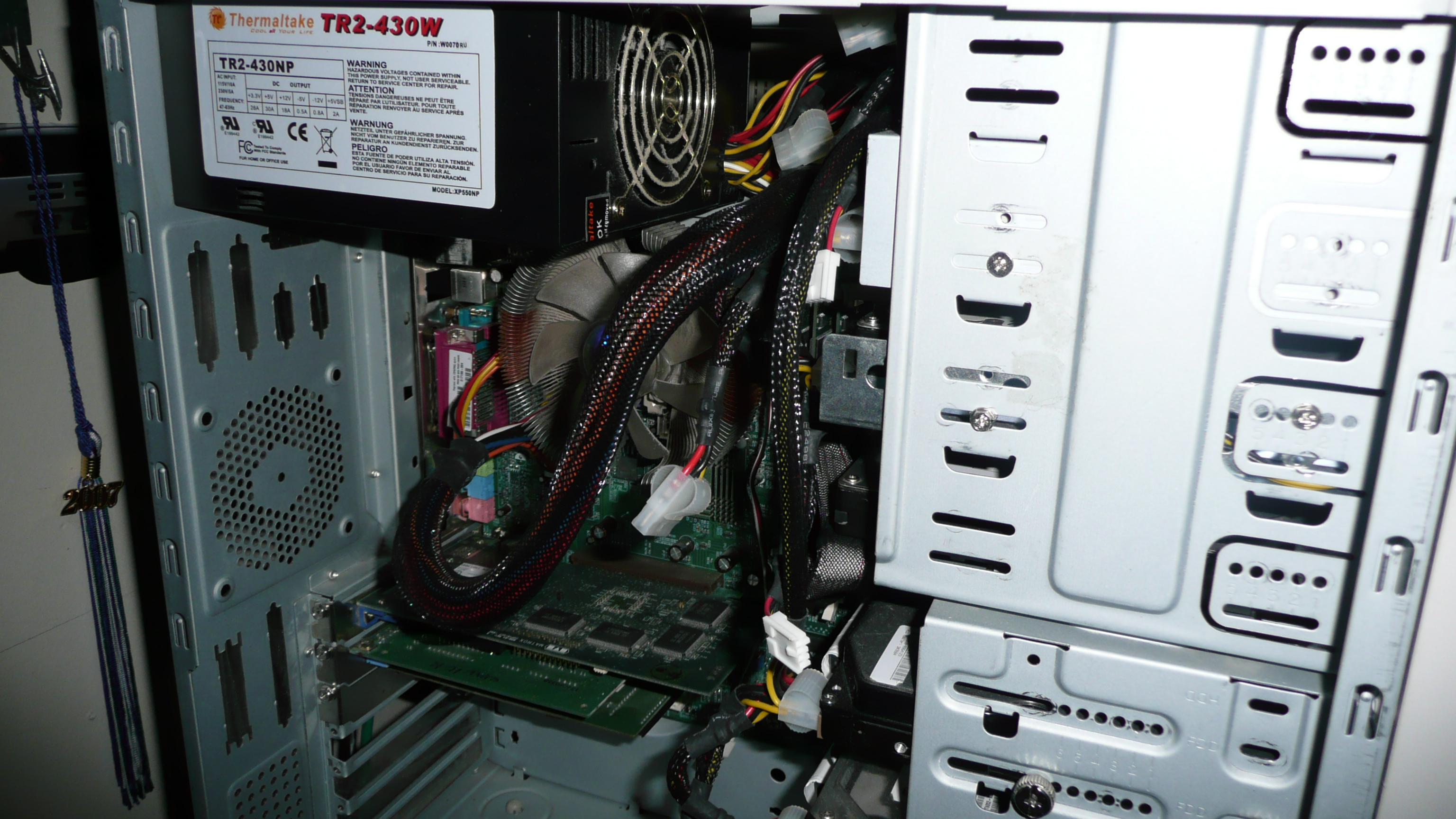 Typical installation of an ATX PSU. Thermaltake TR2-430NW psu is the supply used in the computer.